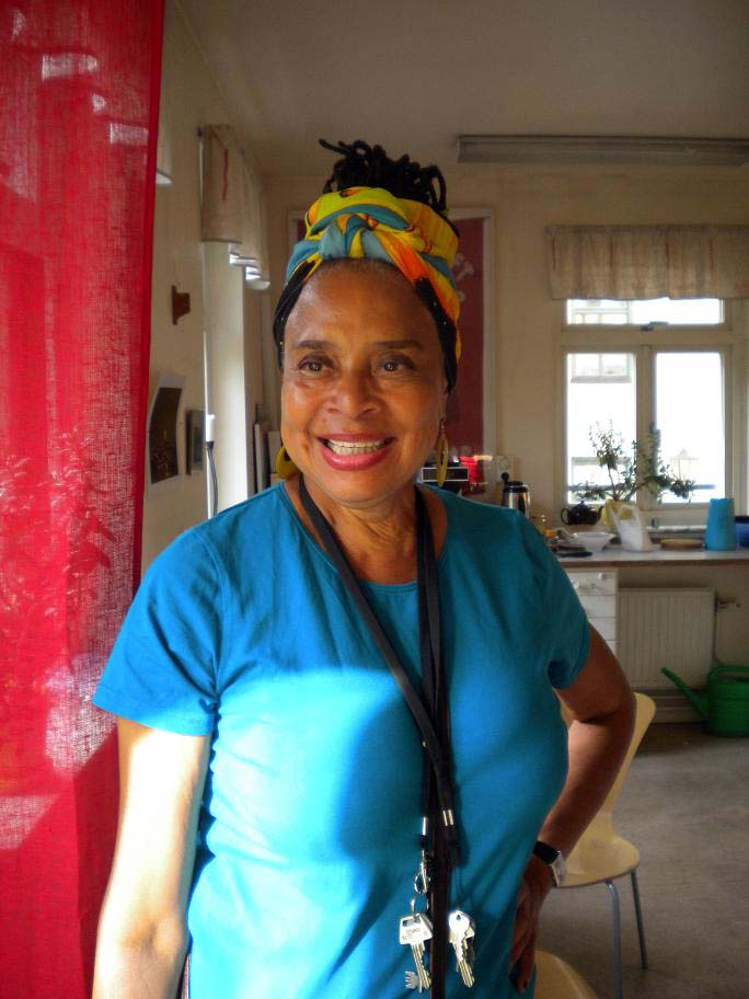 Cuban-Swedish entertainer Maria Llerena, as released by image creator CabarEngPlace: Southern Isle (Södermalm), Stockholm, Sweden